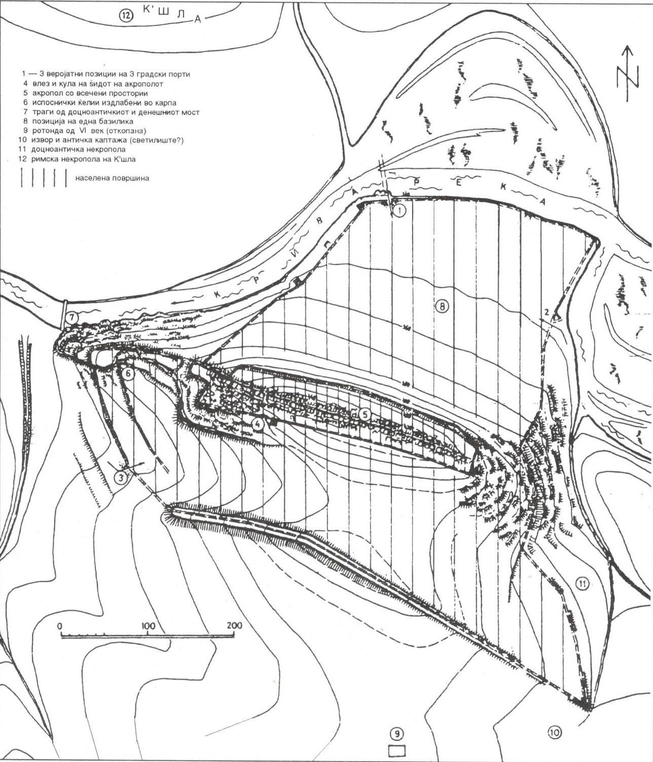 Plan of the archaeological site Golemo Gradiste, presumably of ancient city Tranupara, near Konjuh, Macedonia